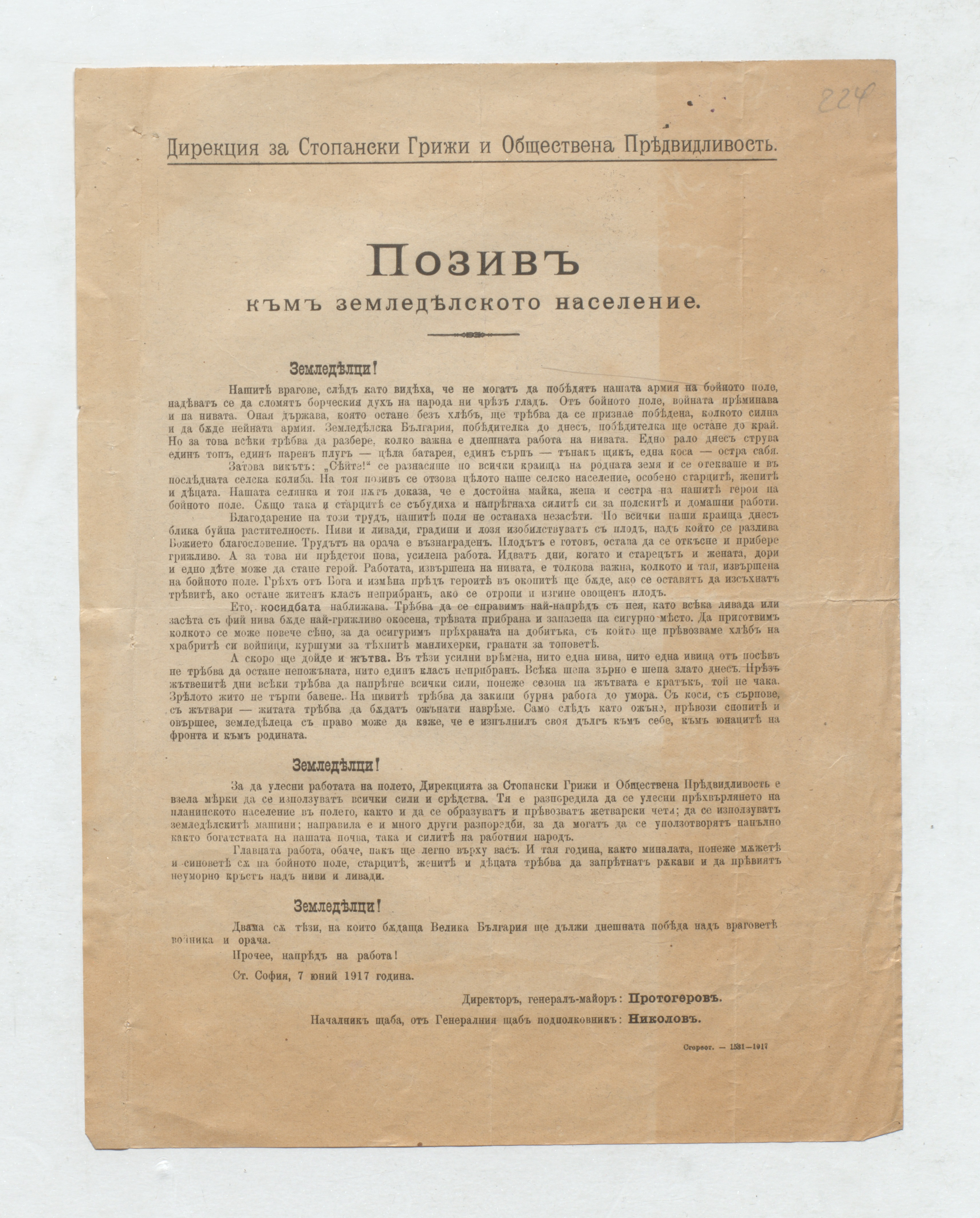 Ecomonic Care and Social Foresight Administration Appeal for Sowing, signed by general Alexandar Protogerov. (7 June 1917) This media file is produced by Wikipedian in Residence in Category:Wikipedian in Residence at DARM in 2016.